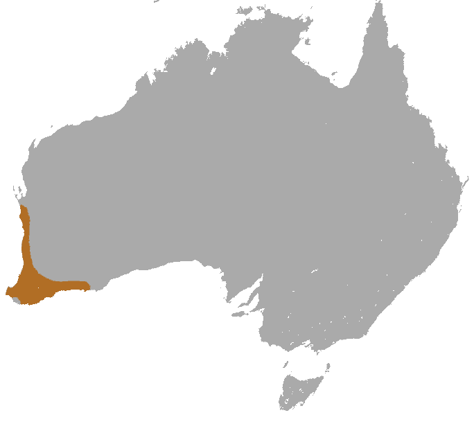 Western Brush Wallaby (Macropus irma) range